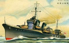 Shiranui was a Kagerō-class destroyer of the Imperial Japanese Navy.